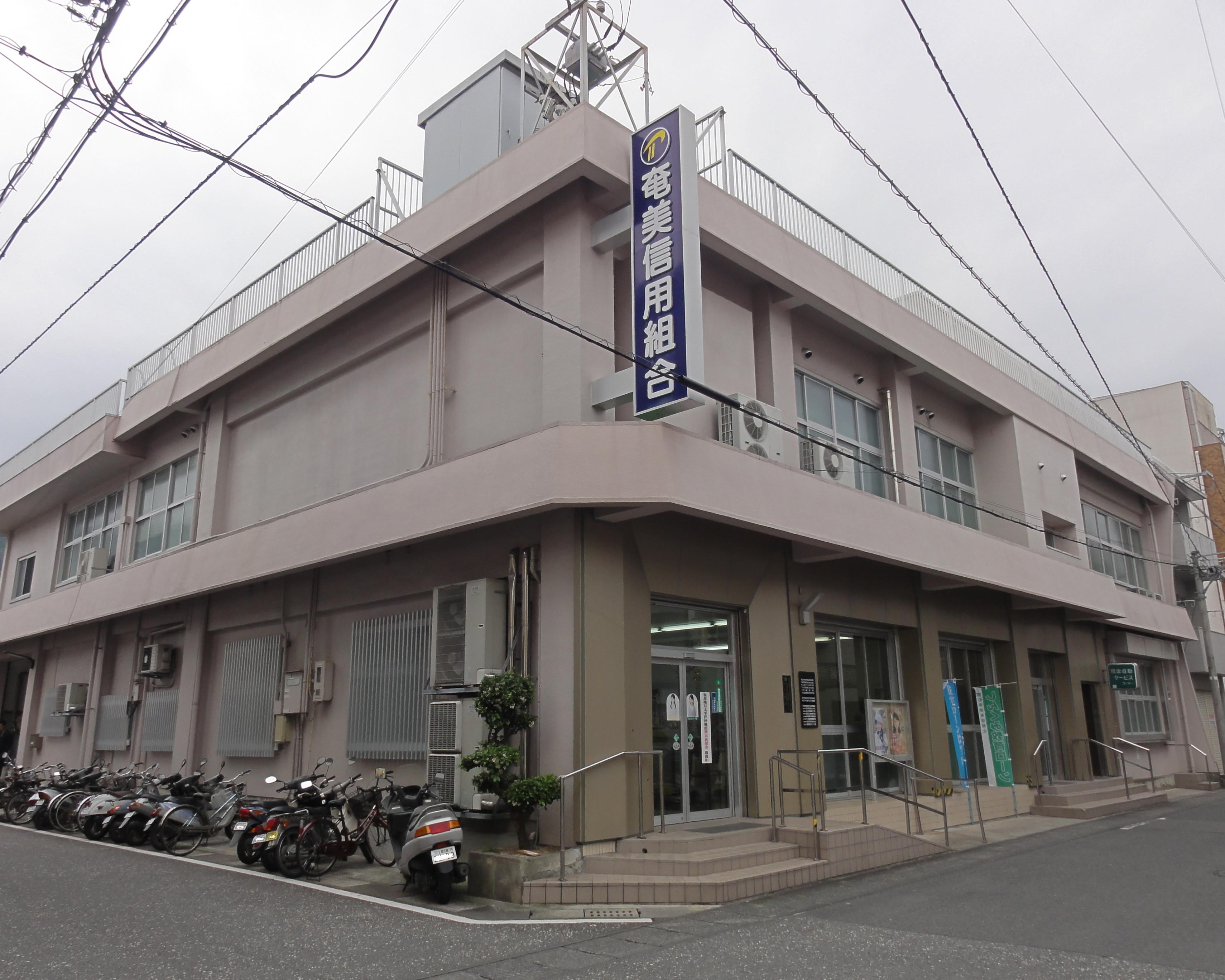 Amami Credit union,Kagoshima prefecture, Japan